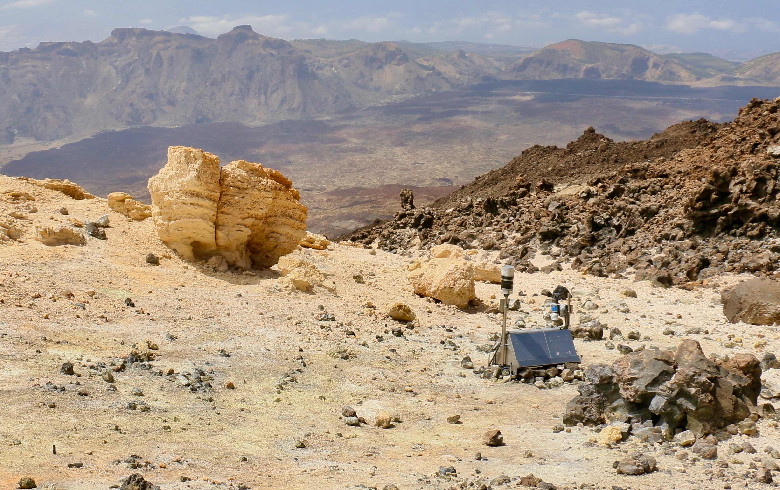 Automatic geochemical monitoring station near the summit of Teide, measuring in particular the volcanic gas emitted by the volcano.